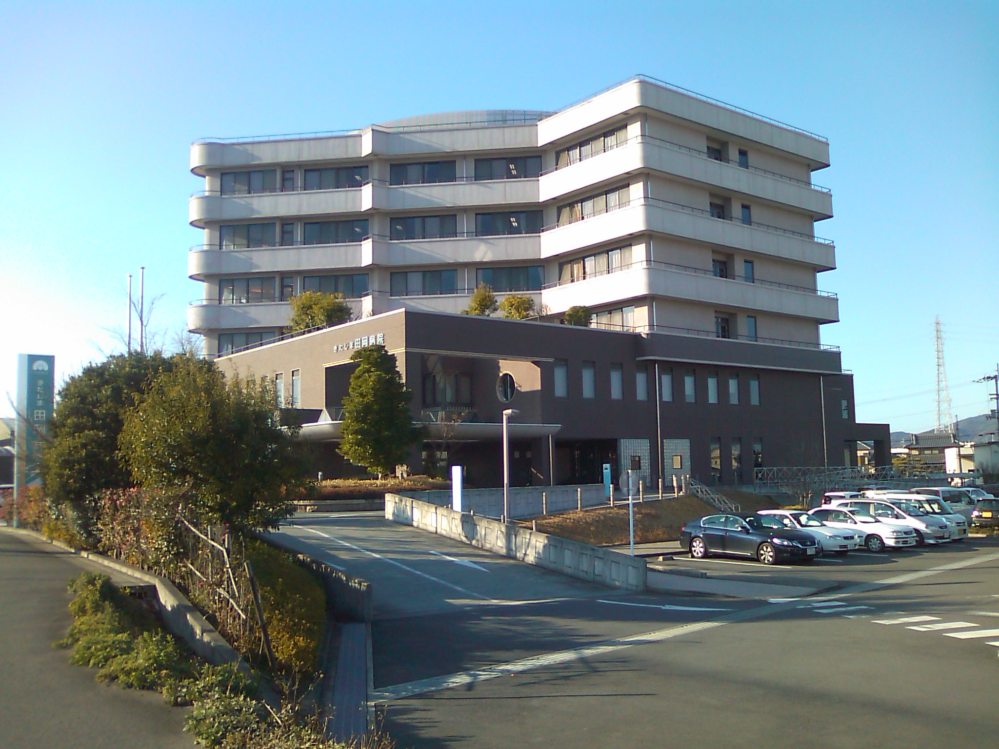 Kitajima Taoka Hospital, Japan